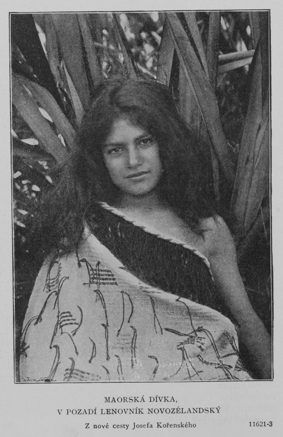 A Māori girl, with New Zealand flax in the background. An illustration to a Czech-language travelogue Obrazy z jižní polokoule ("Pictures from the Southern Hemisphere"), chapter II. Mezi Maory ("Among the Māori")